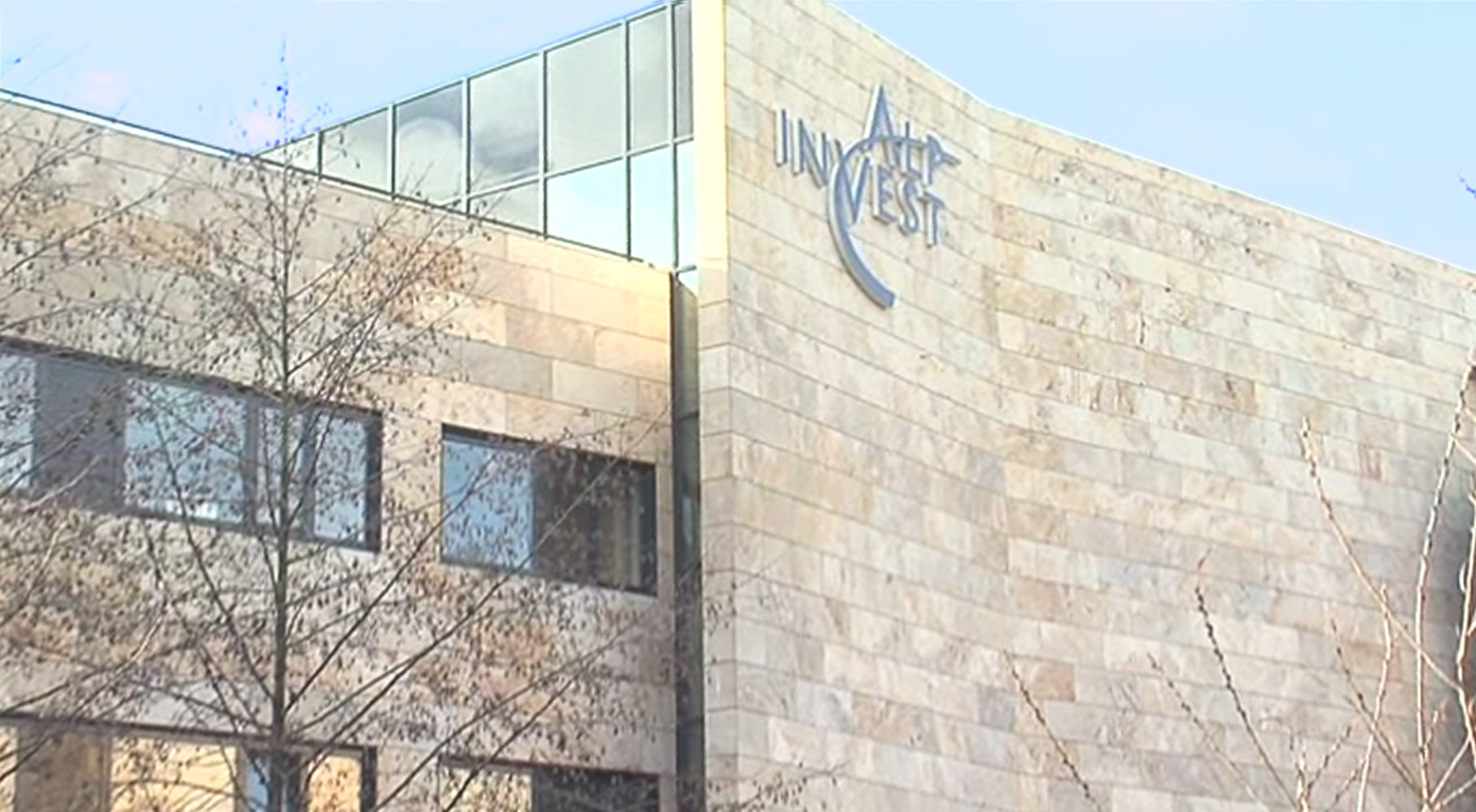 Offices of AlpInvest Partners in Amsterdam, The Netherlands